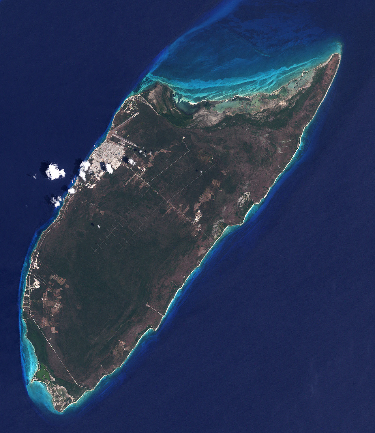 The island of Cozumel off the eastern coast of the Yucatán Peninsula in Quintana Roo, Mexico. Image cropped from this photo for clarity.